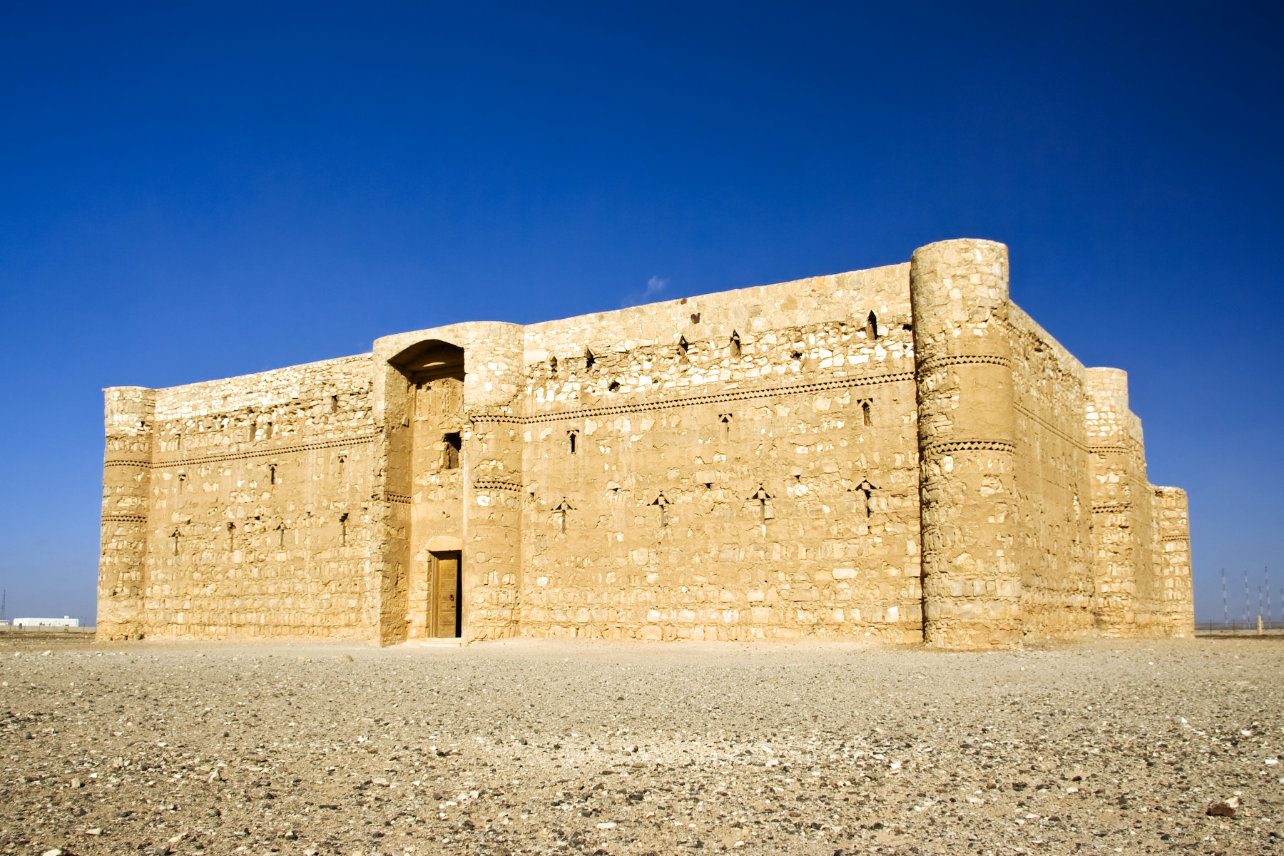 The exterior of Qasr Haraneh in Jordan